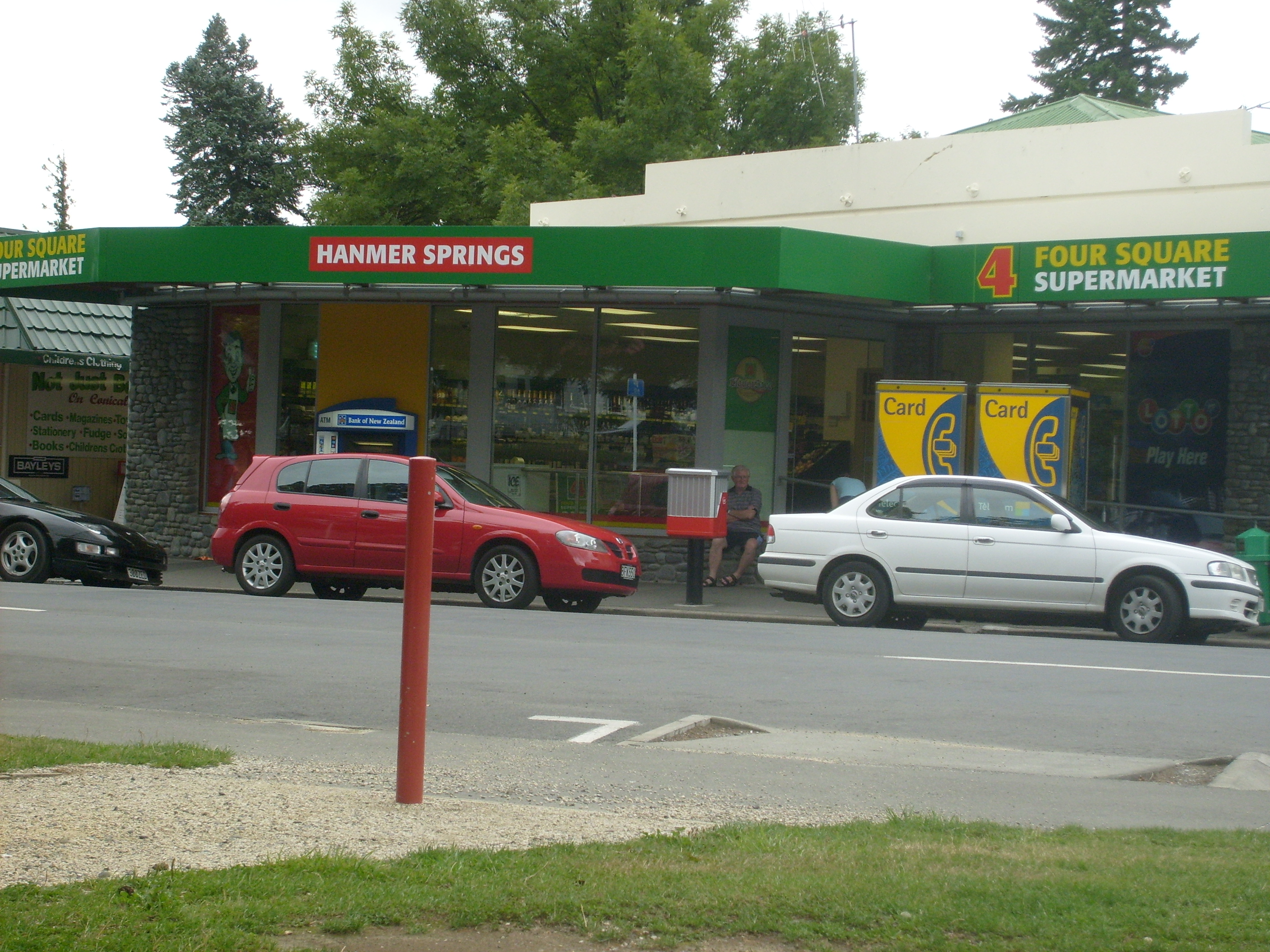 A shot of Foursquare in Hanmer Springs.